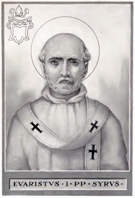 This illustration is from The Lives and Times of the Popes by Chevalier Artaud de Montor, New York: The Catholic Publication Society of America, 1911. It was originally published in 1842.